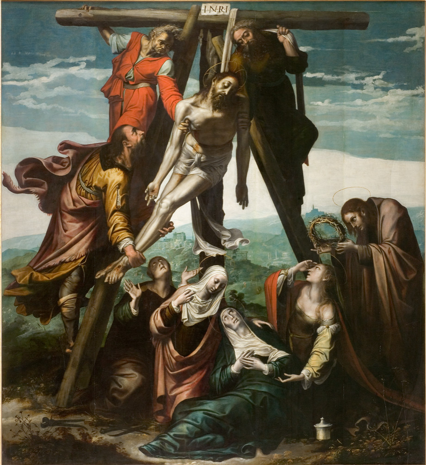 The Deposition